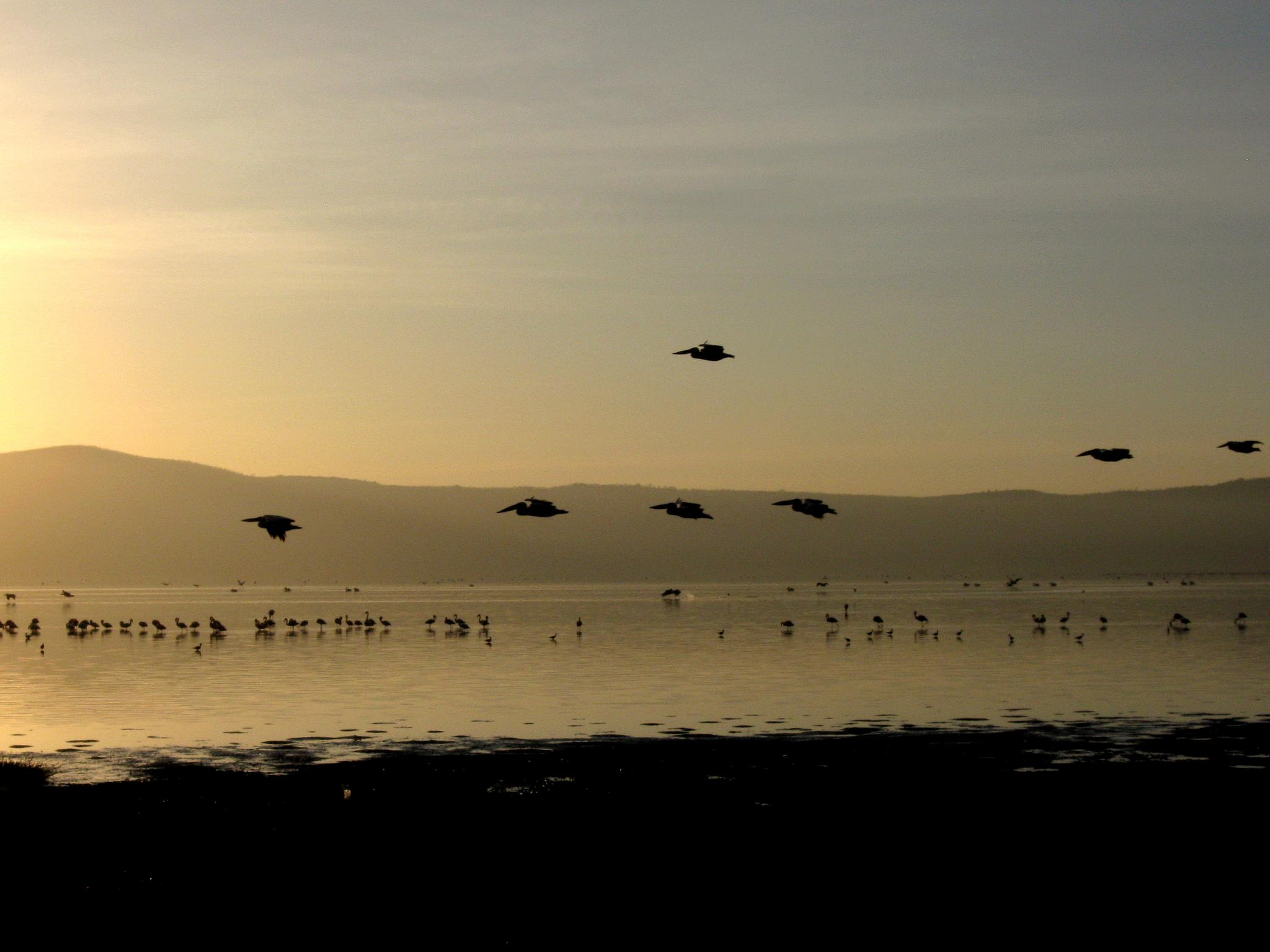 sunrise and pelicans in nakuru